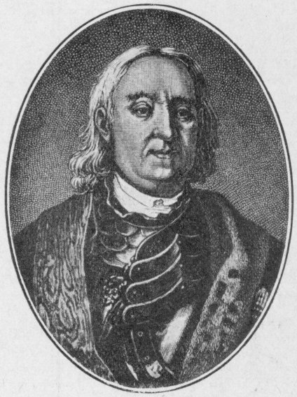 Fyodor Apraksin, Russian admiral